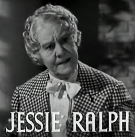 Cropped screenshot of Jessie Ralph from the trailer for the film The Last of Mrs. Cheyney